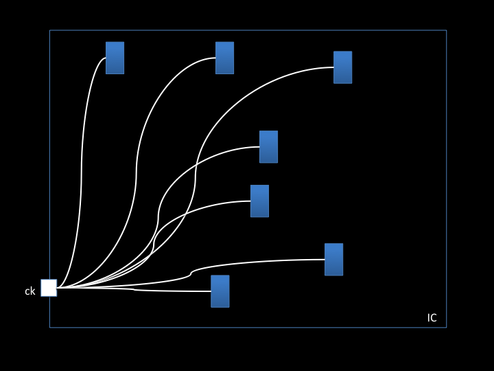 clock tree distribution : ideal network